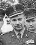 Border Protection Forces in Gierałcice.